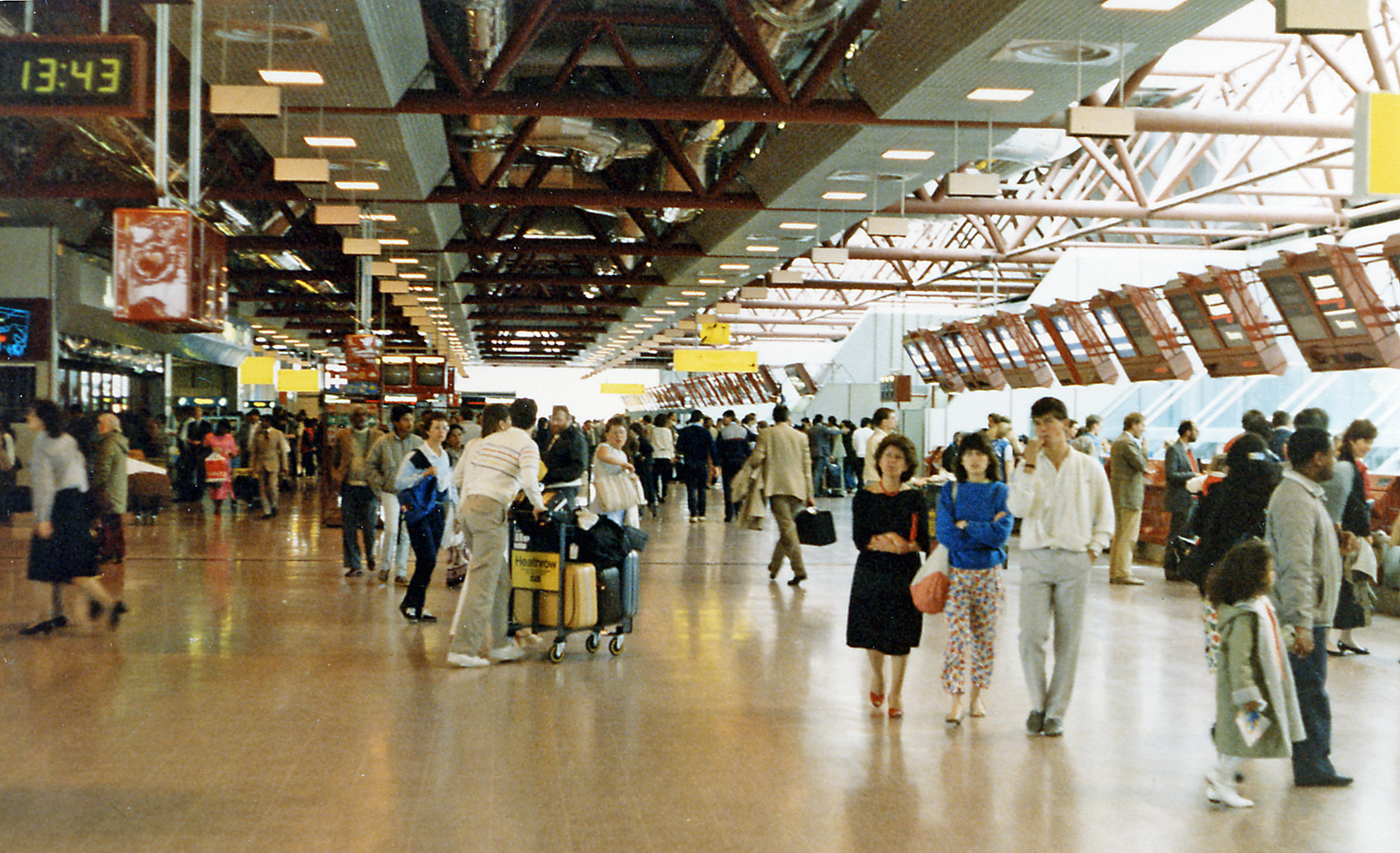 London-Heathrow, Terminal 4 Departure Concourse, 1986. This Terminal had only been opened for six weeks. The scene and people can be contrasted with nearly 27 years later - more sedate then? (It was a Sunday).